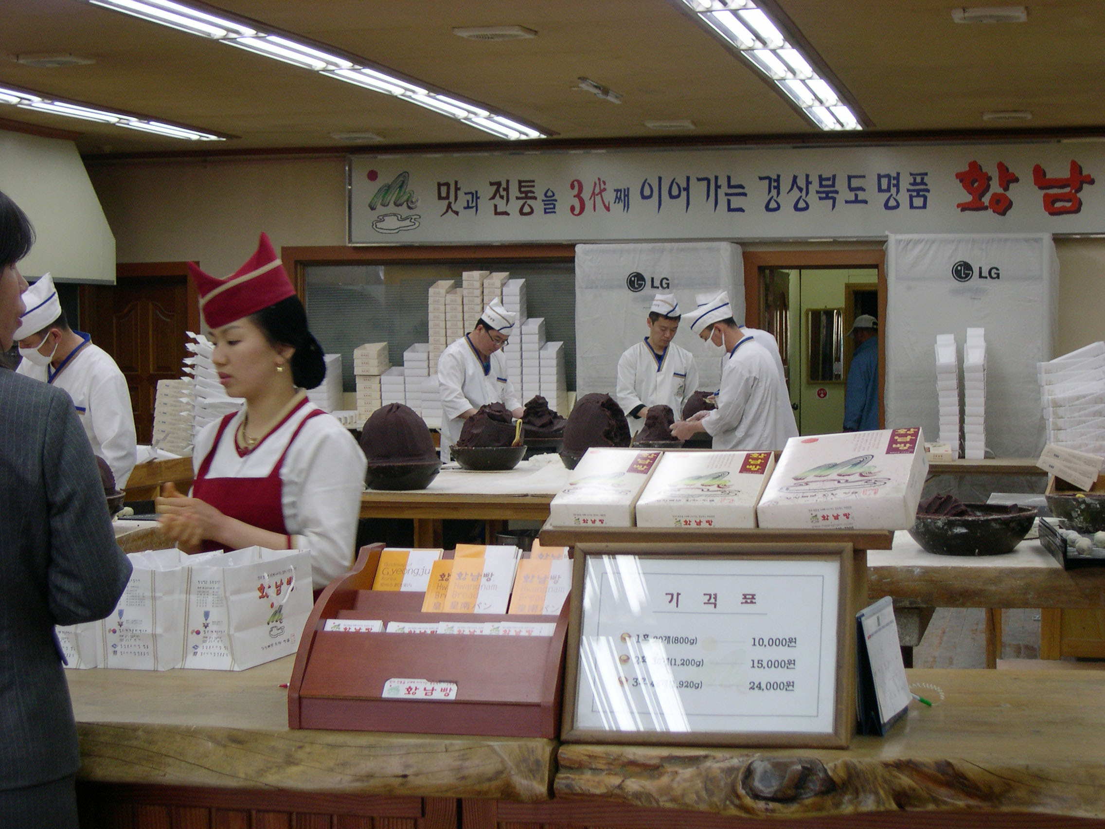 Famous for it's red bean buns.. yummy :D